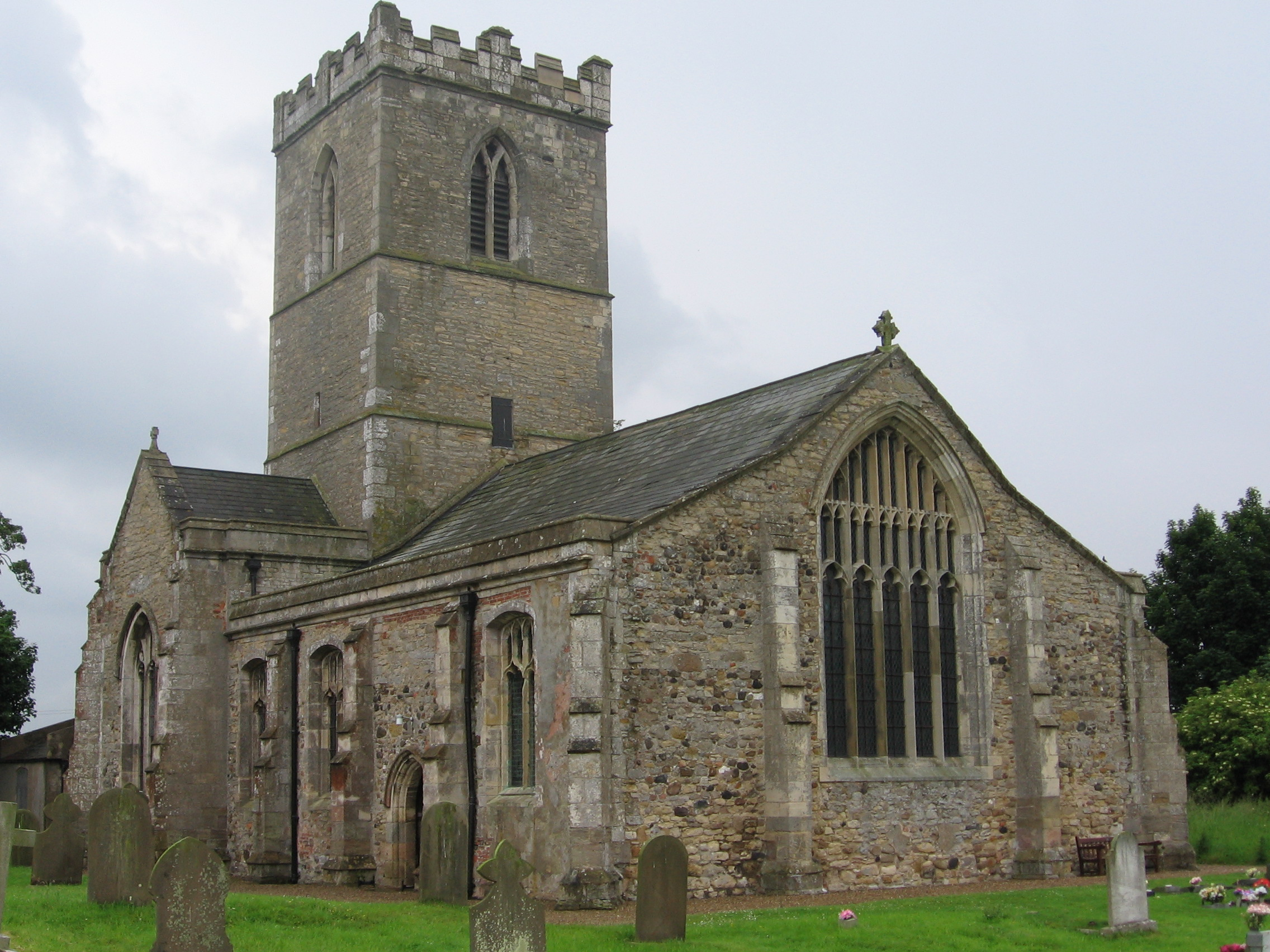 St Andrew's Church, Paull, East Riding of Yorkshire, England. Photograph taken by me on 23 Jun 2007.